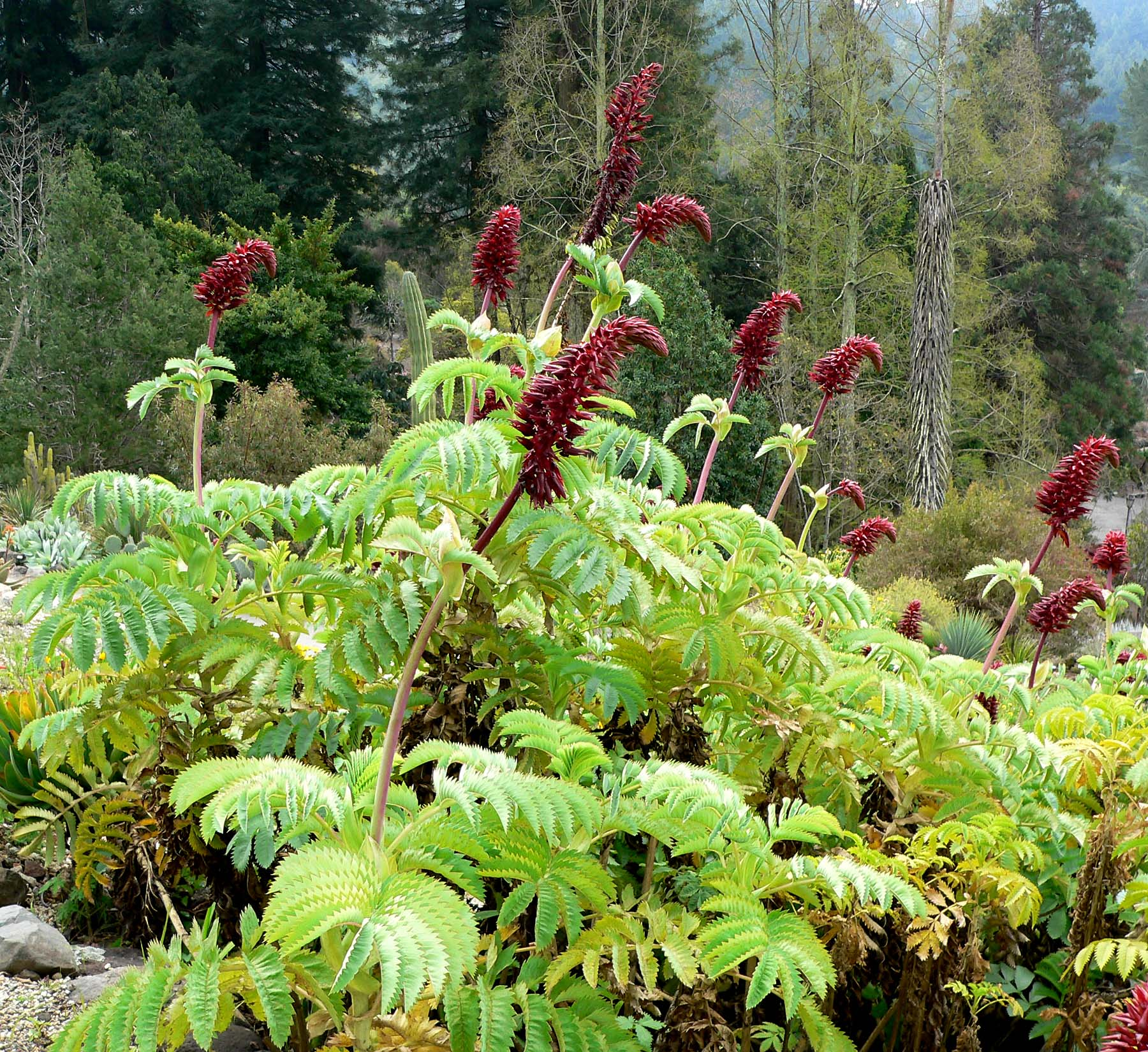 Photo of Melianthus major at the University of California Botanical Garden